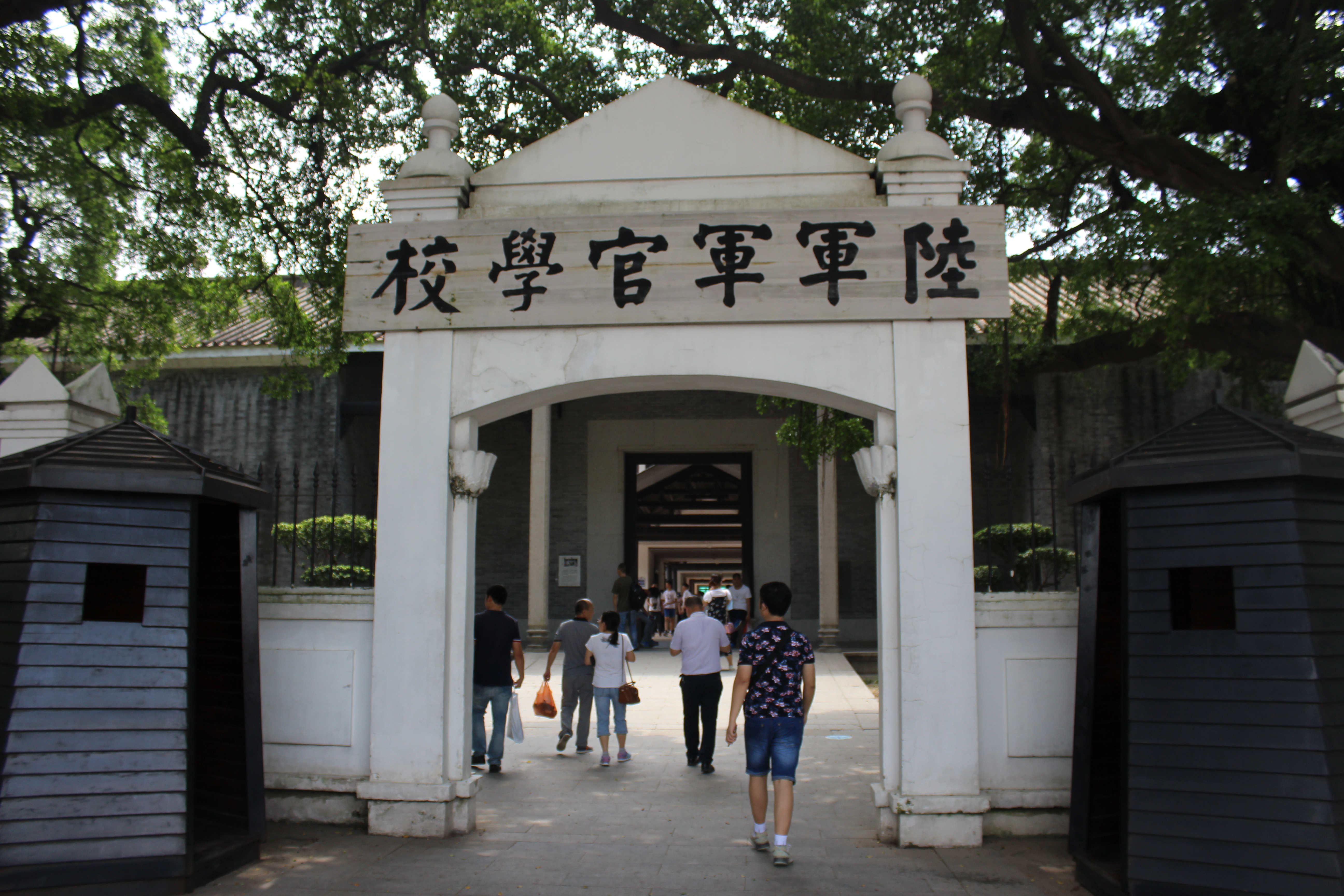 Front gate of Whampoa Military Academy